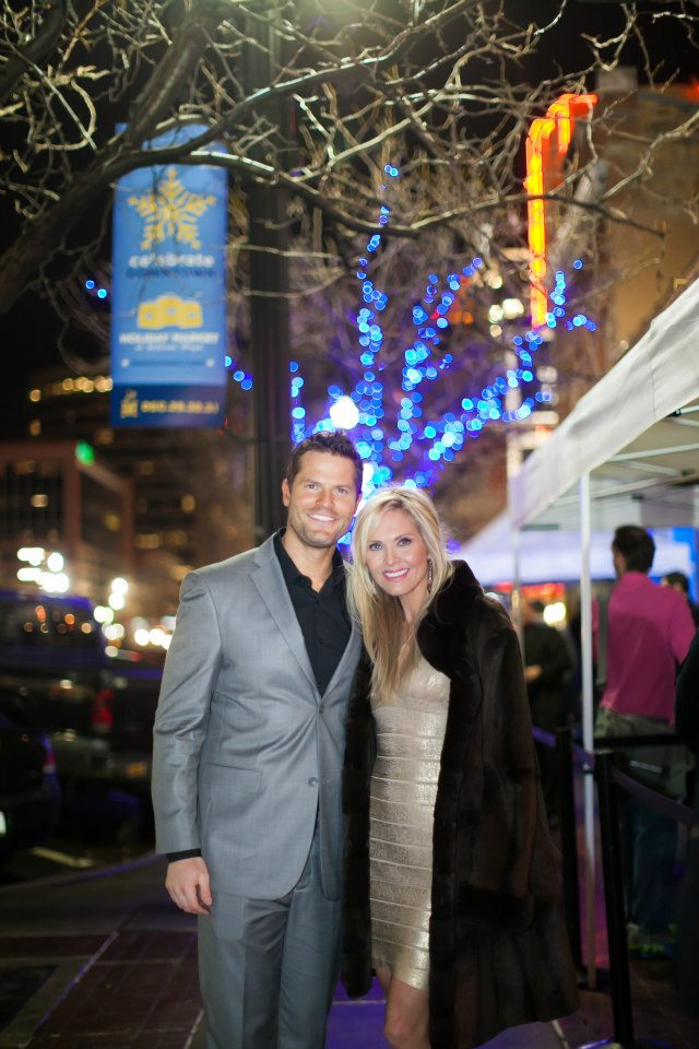 Bret and Shannon Engemann